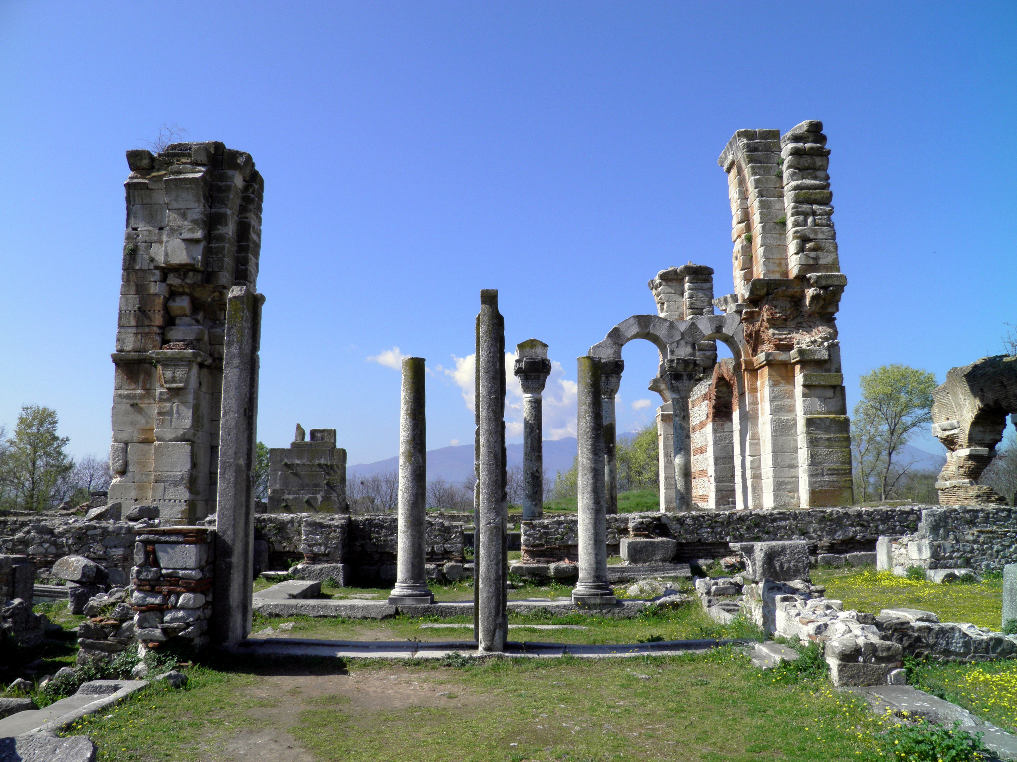 In the VIth century the inhabitants of Philippi embarked on the construction of an imposing basilica on the site of the town's palaestra; the size of the planned building clearly exceeded the needs of the town, thus indicating that Philippi attracted many pilgrims. There is uncertainty among archaeologists whether the gigantic pillars of the basilica ever supported a dome; in 547 the so-called Justinian plague devastated the countries of the Mediterranean basin and in the early VIIth century an earthquake struck the region of Philippi; these two catastrophic events could have halted the completion of the basilica. The decoration of the basilica moved away from classic patterns; all representations of human beings and animals were banished and even the acanthus leaves of Corinthian capitals were depicted in an almost symbolic way; this type of "combed" capitals can be observed also at many Byzantine locations in Syria of the same period. The basilica was at the centre of a complex of buildings which included a chapel reserved to the bishop and a baptistery; the whole complex was built with materials taken from ancient monuments, but the stones were completely reworked in order to eliminate all references to gods, human beings and animals.